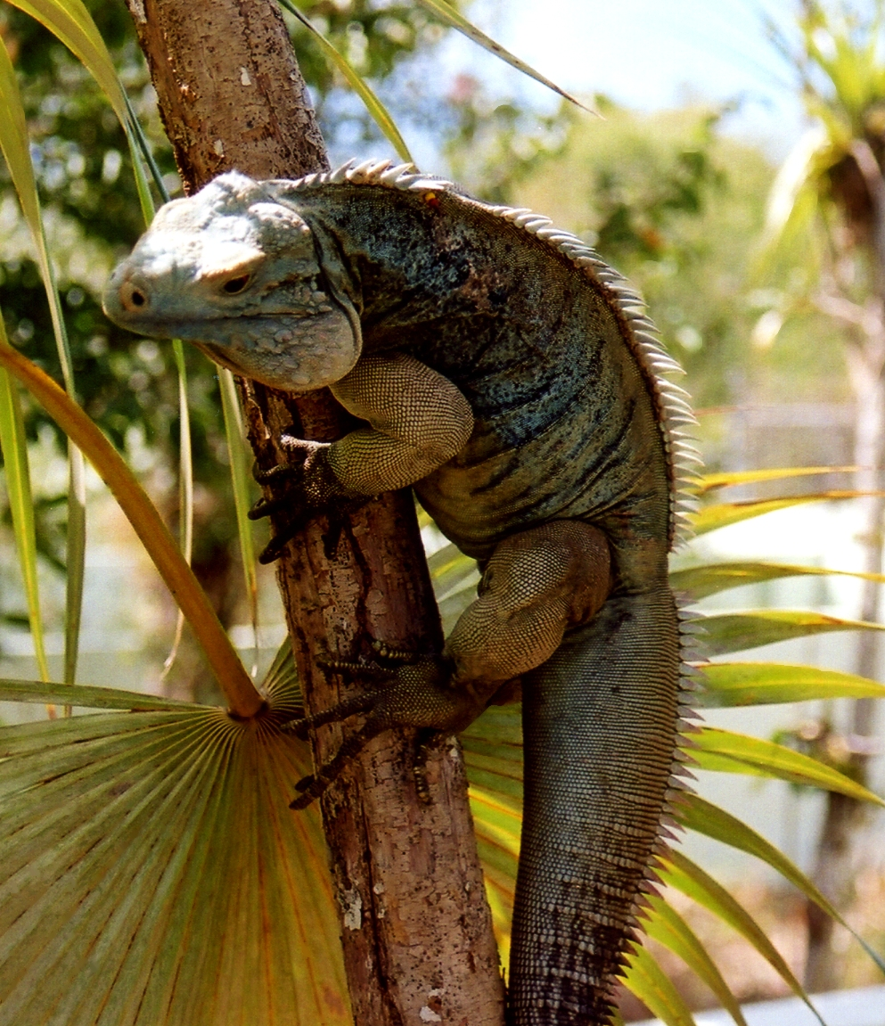 A Blue Iguana (Cyclura lewisi) in the Cayman Islands.